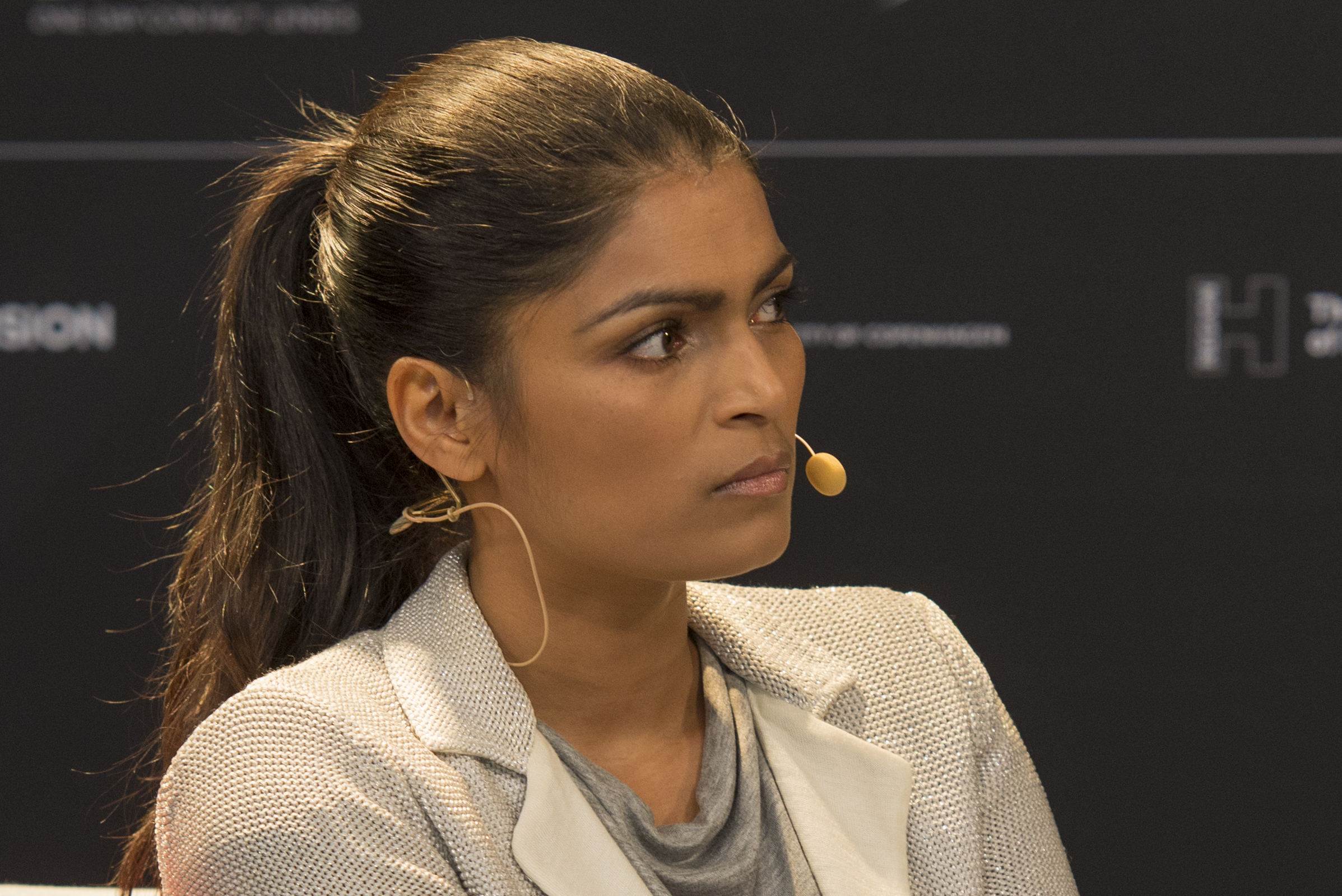 Ulla Essendrop hosting a Meet & Greet in the press centre for the Eurovision Song Contest 2014.